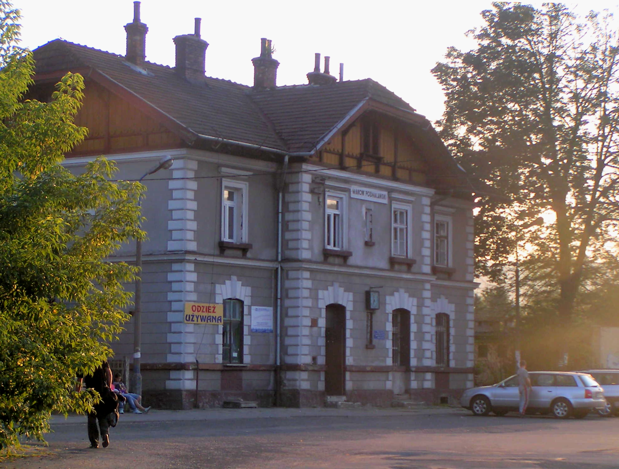 Maków Podhalański - railway station building